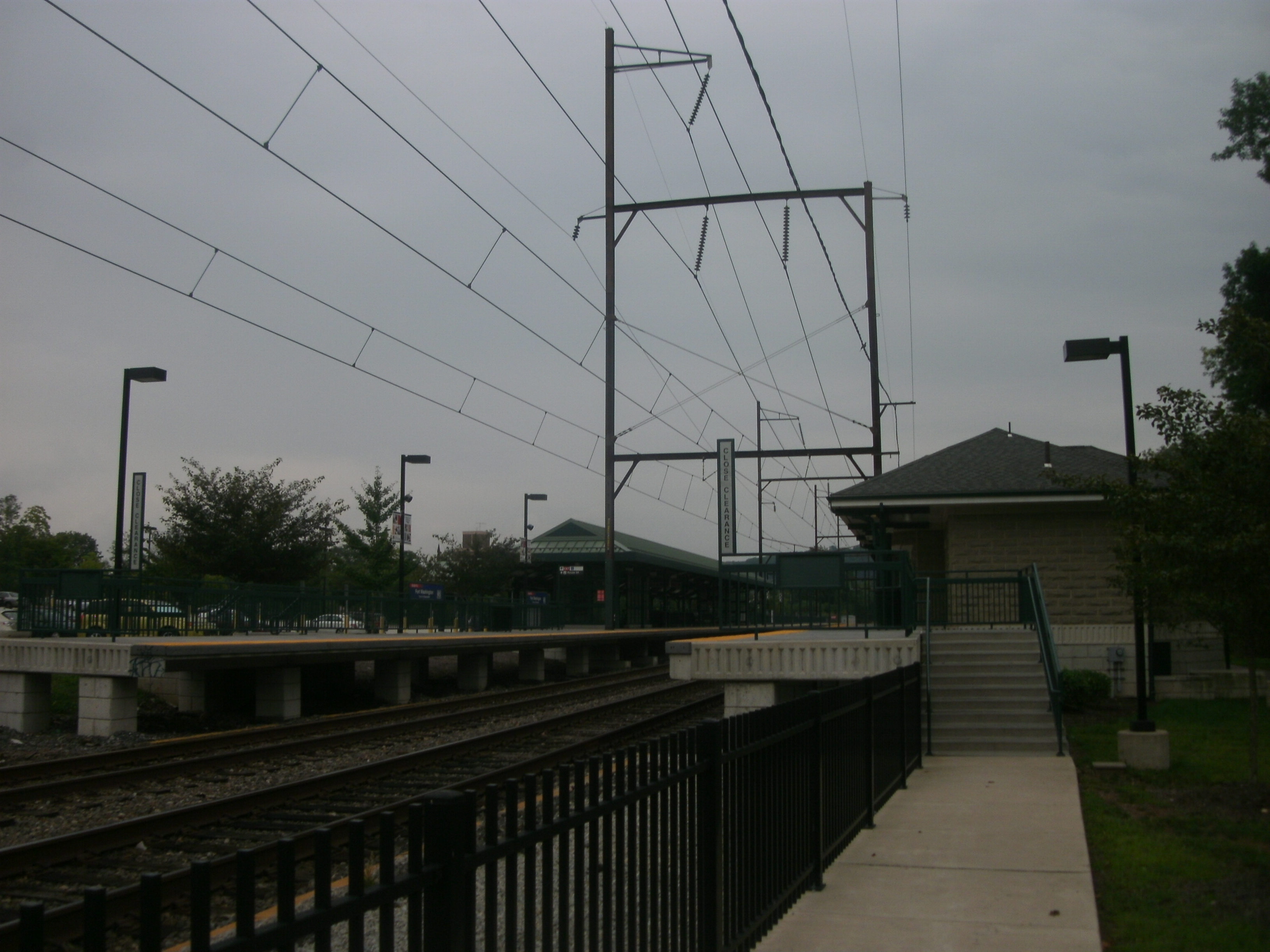 The Fort Washington SEPTA station, rebuilt with high-level platforms in Fort Washington, Pennsylvania.